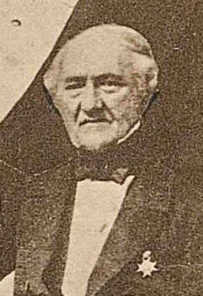 Adam Wilhelm Ekelund (1796-1885), Swedish physicist and professor at Lund University.